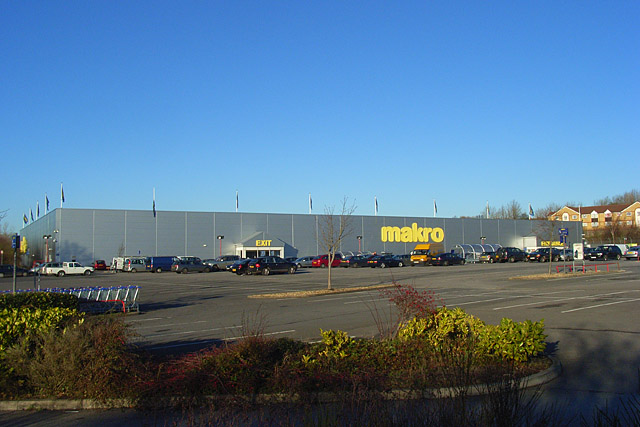 Makro, Reading In a retail and industrial area on the southern side of the town. Behind are flats on Elgar Road.